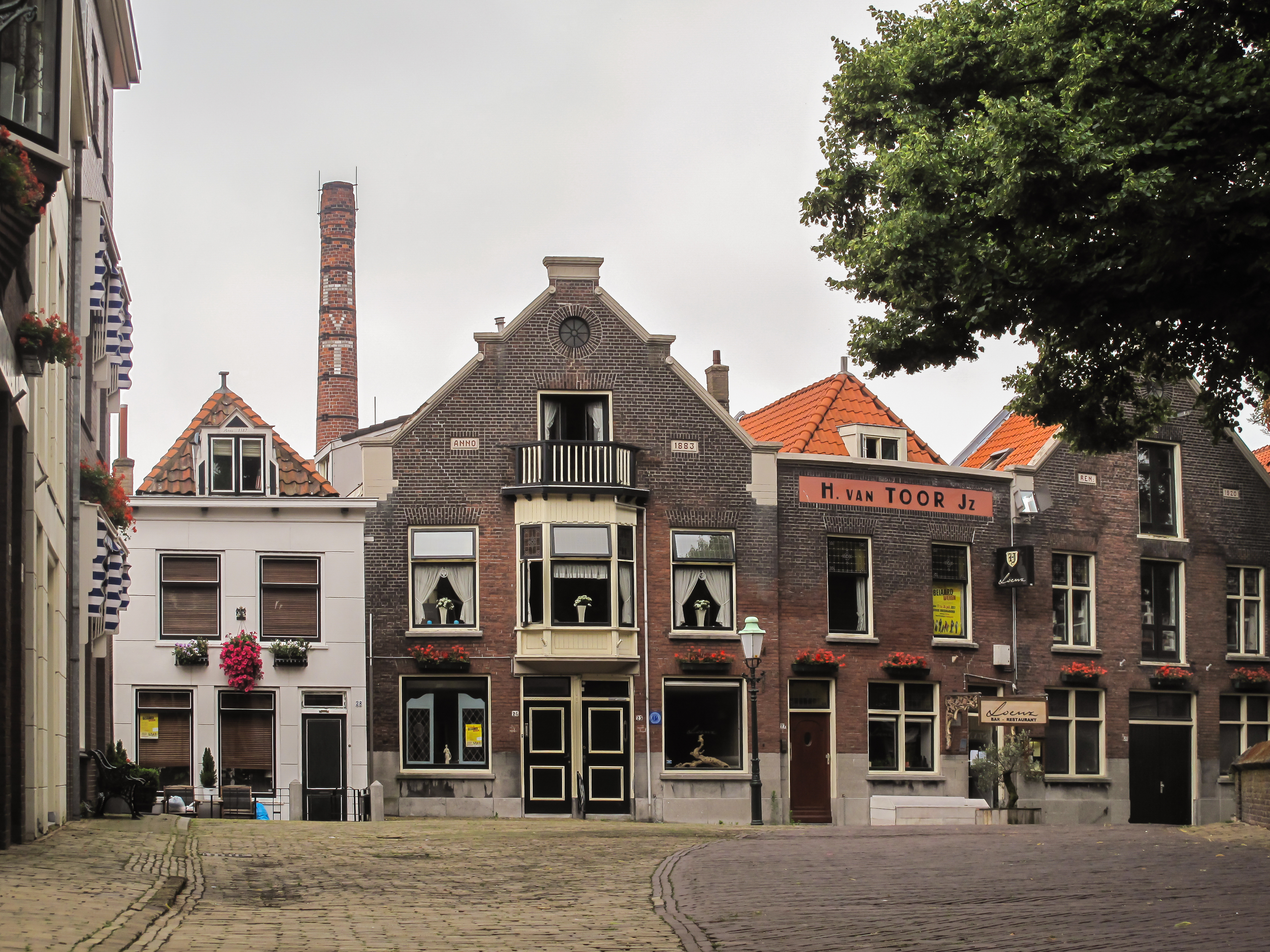 Vlaardingen, office building H van Toorn near the Grote Kerk